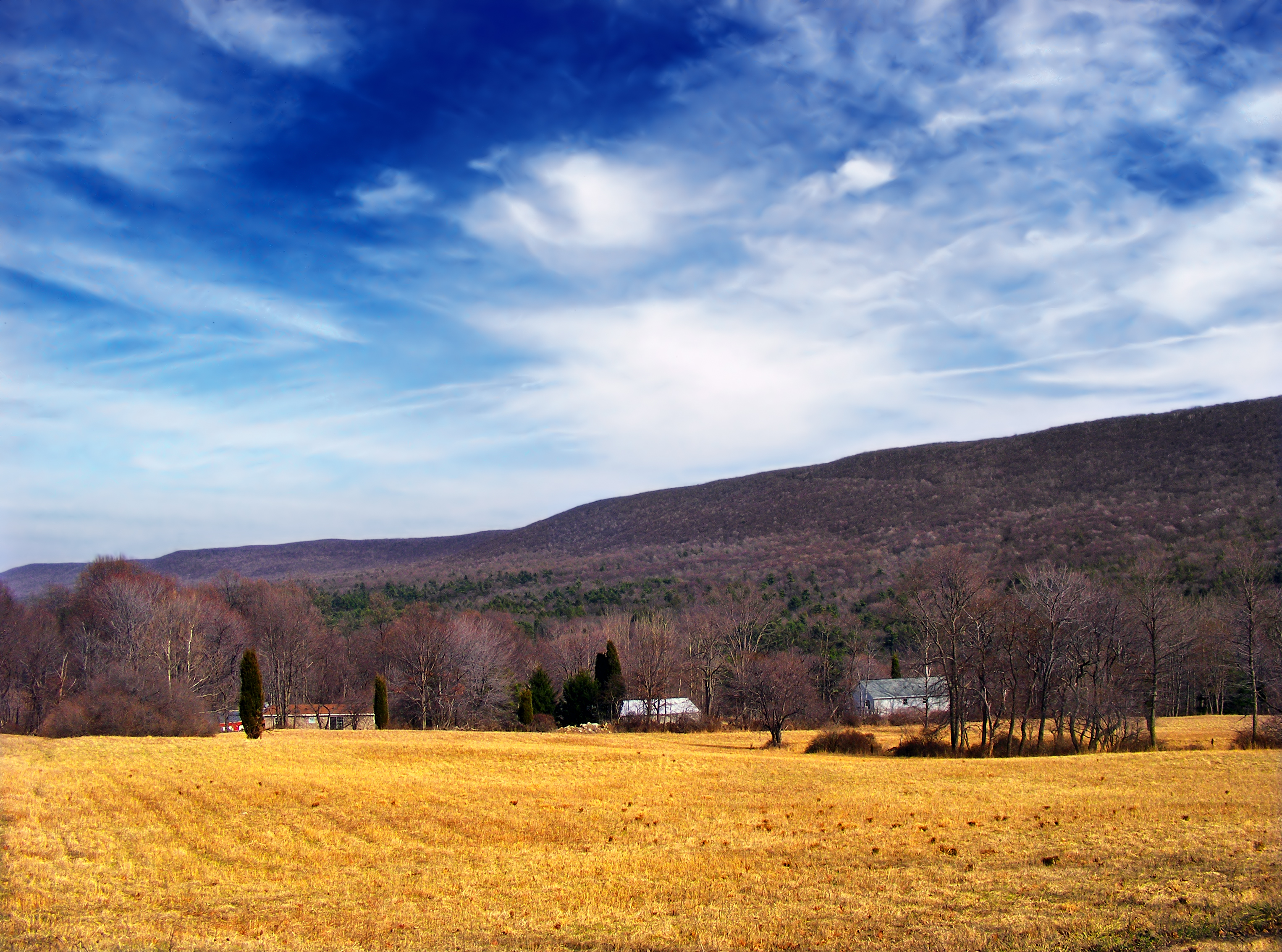 Mixed cloud formations, Eldred Township, Monroe County.